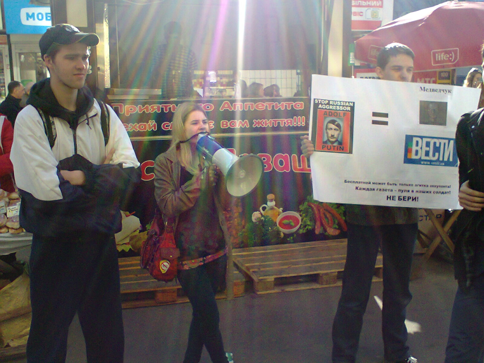 Group of young people protesting against distribution of ukrainian newspaper "Vesti"